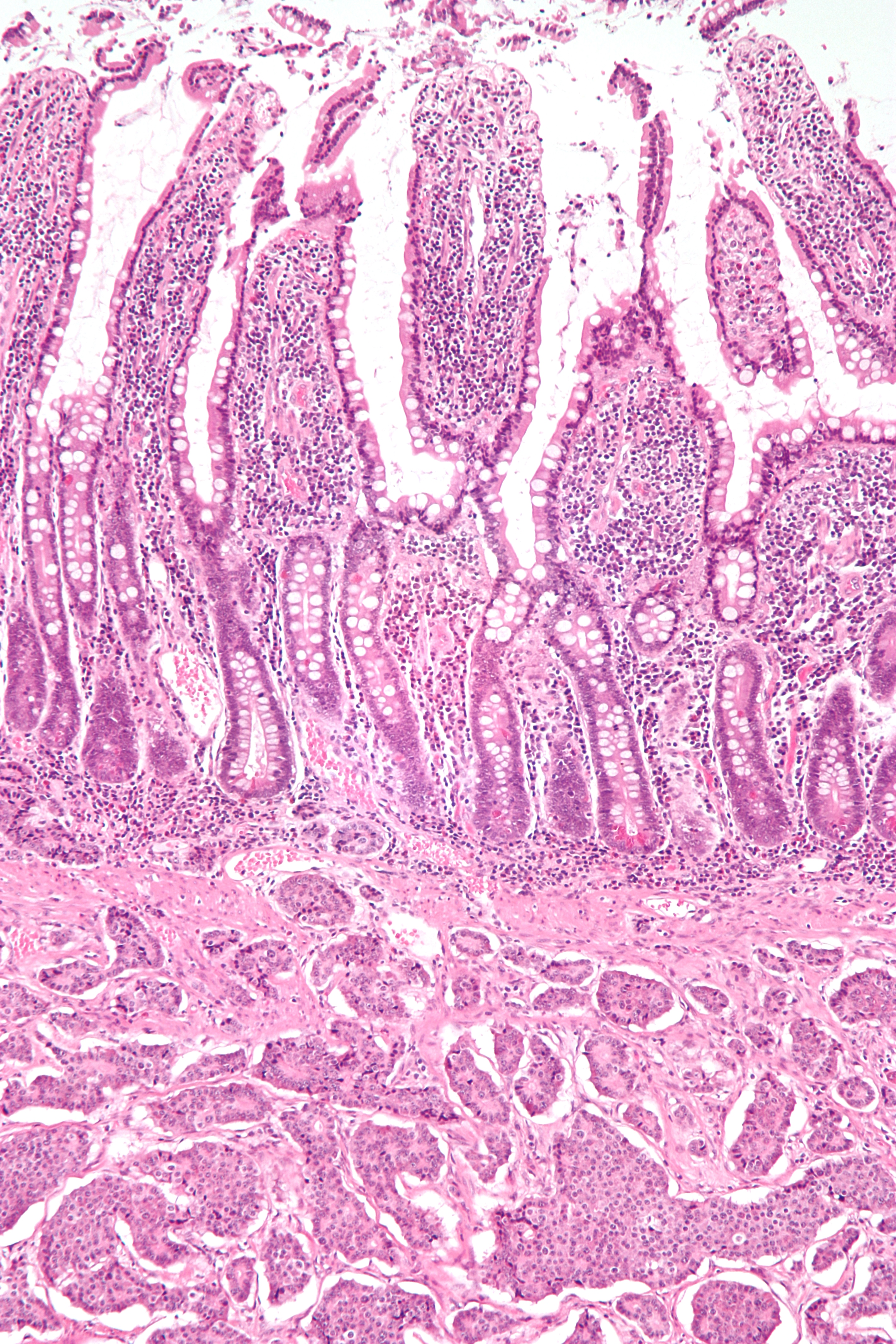 Low magnification micrograph of a small intestine neuroendocrine tumour. H&E stain. Related images Low mag. Intermed. mag. High mag. High mag. (cropped)